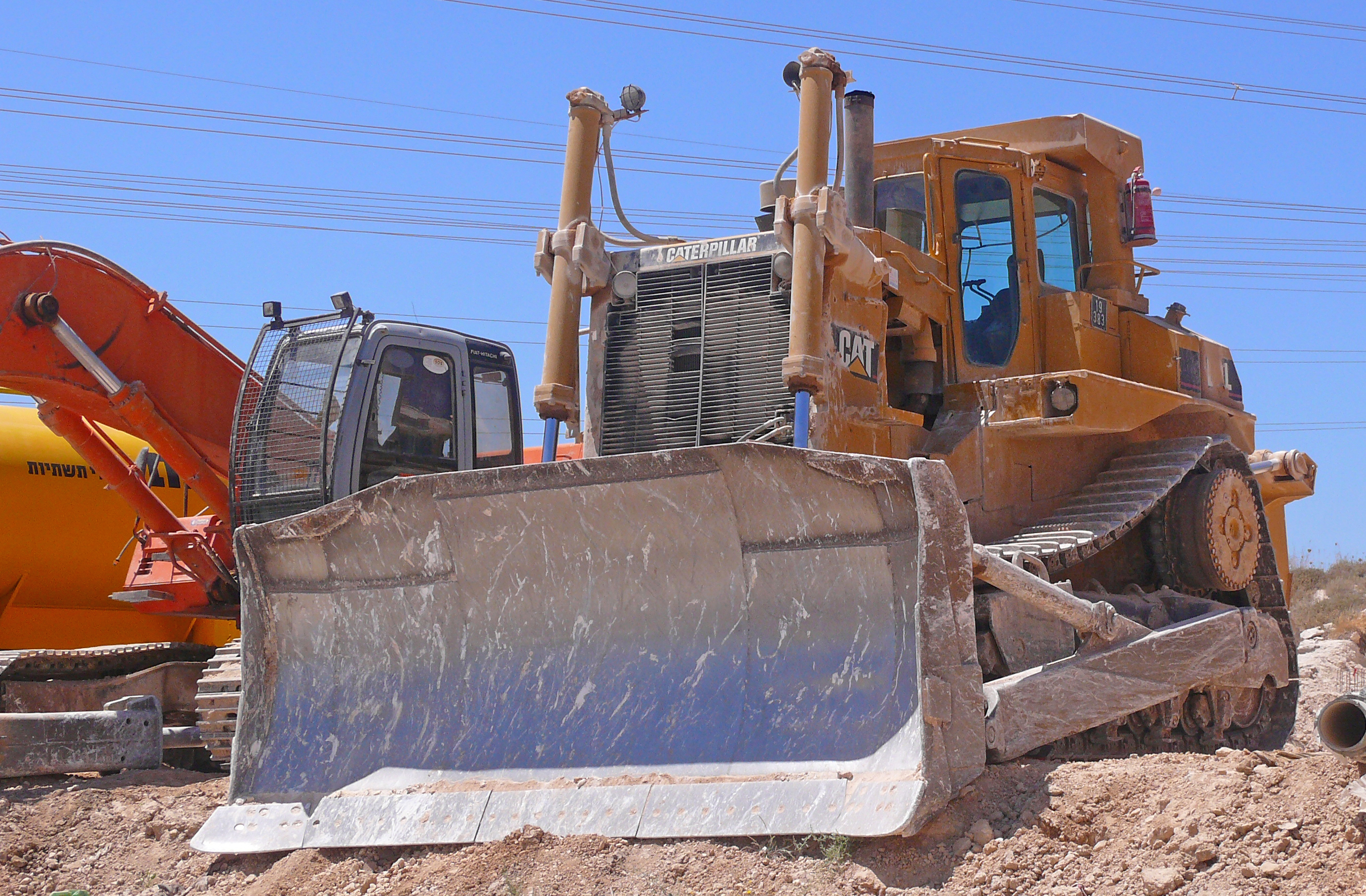 Caterpillar D9L bulldozer near Barket quarry, Israel